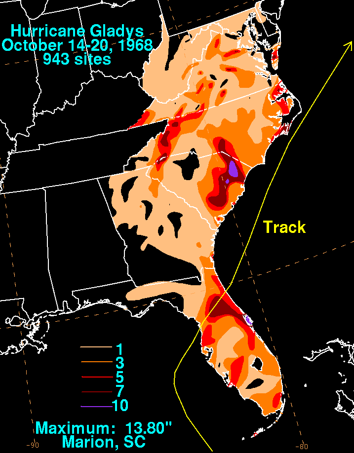 Rainfall produced by Hurricane Gladys during October 1968.